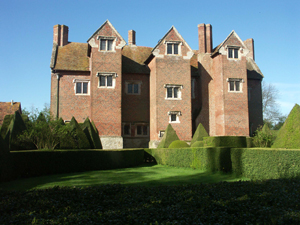 This is a picture of Beckley Park, Oxfordshire. The photograph was taken by Vivian Garrido in 2003. This picture shows the back of the main house.